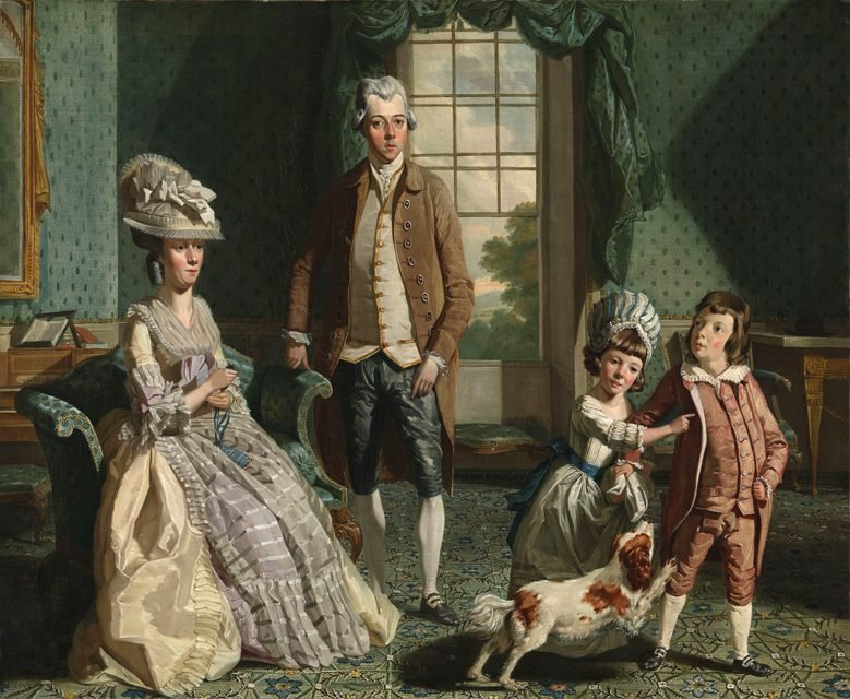 The Fountaine Family by John Singleton Copley, 1776, The Fountaine Family by John Singleton Copley, 1776, Tate Britain